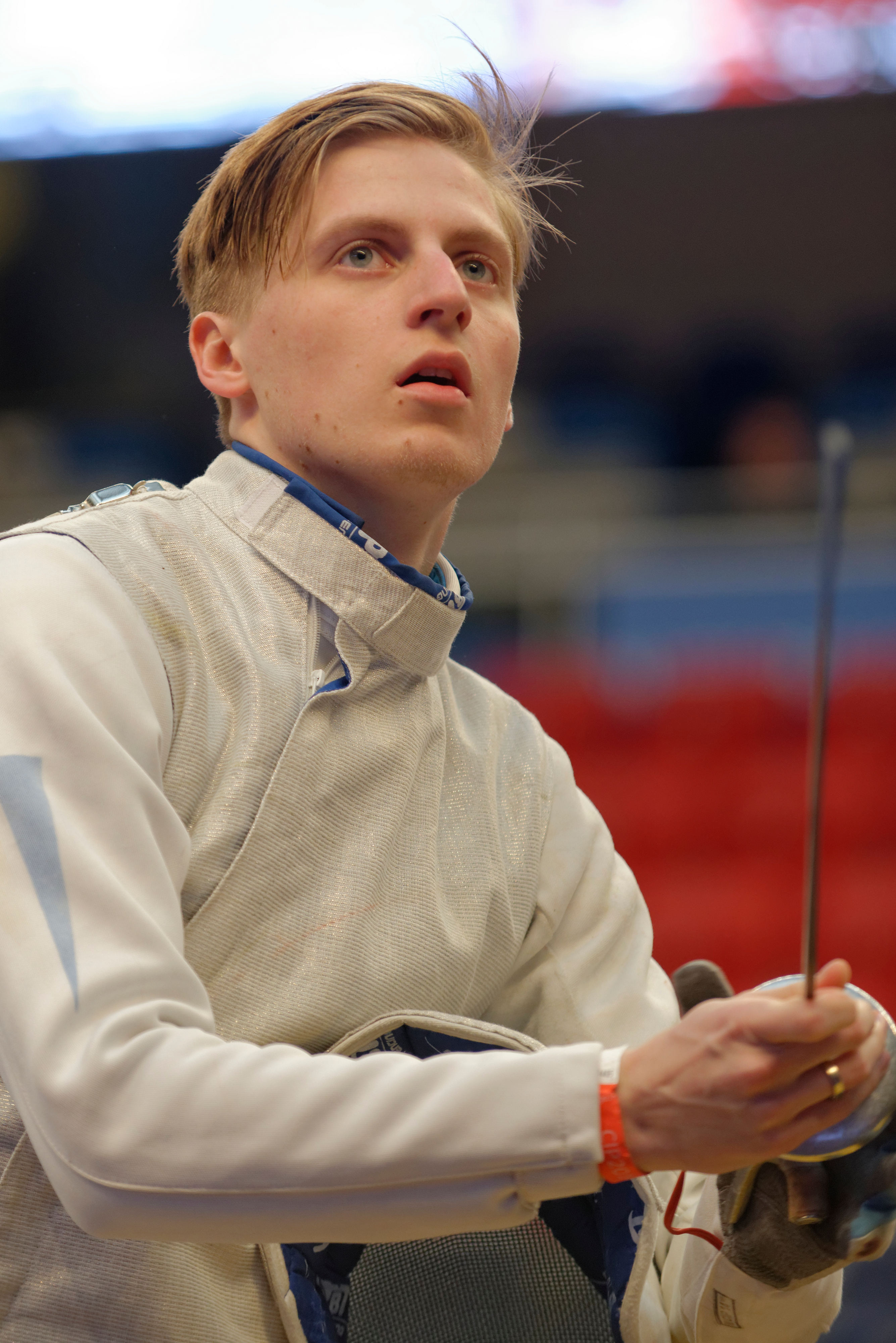 Ukraine's Rostyslav Hertsyk during his T64 bout against Rene Pranz of Austria at the Challenge International de Paris (men's foil World Cup).